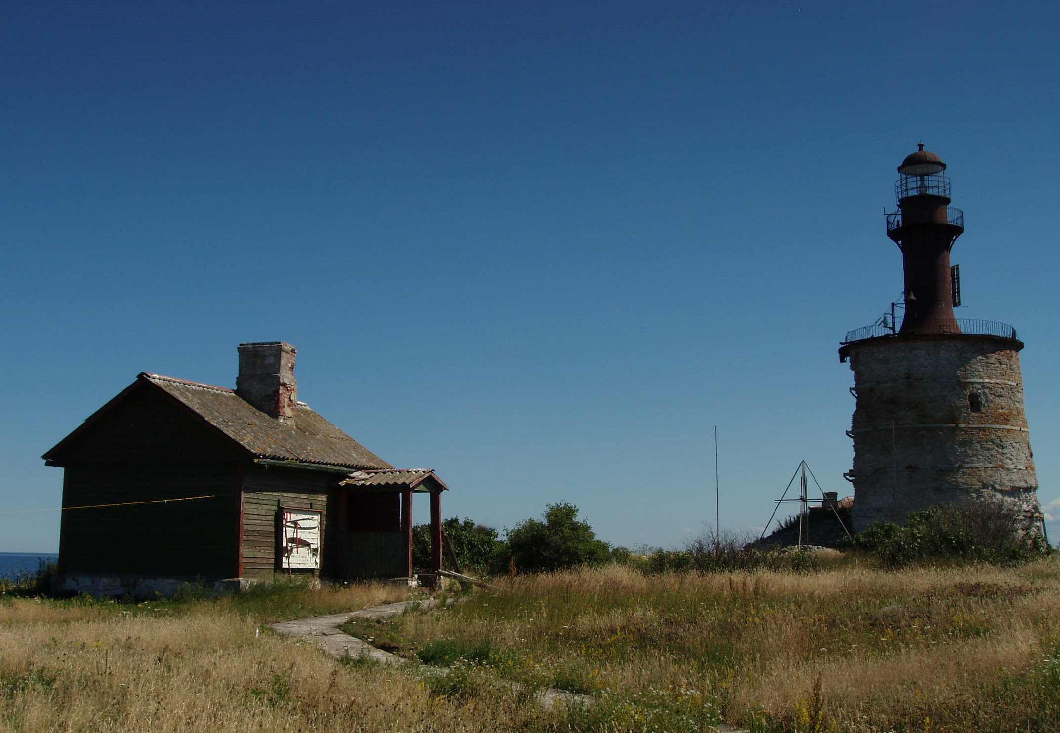 Sauna and lighthouse in Keri island, Estonia.